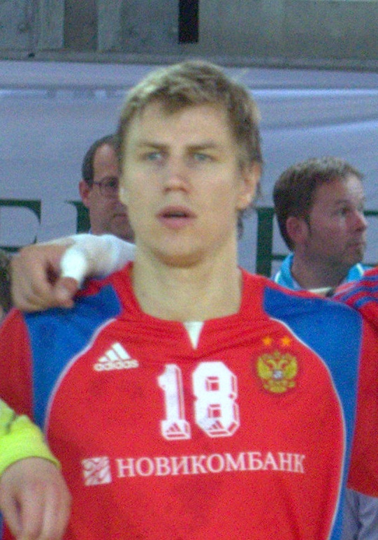 Daniil Shishkarev 2013